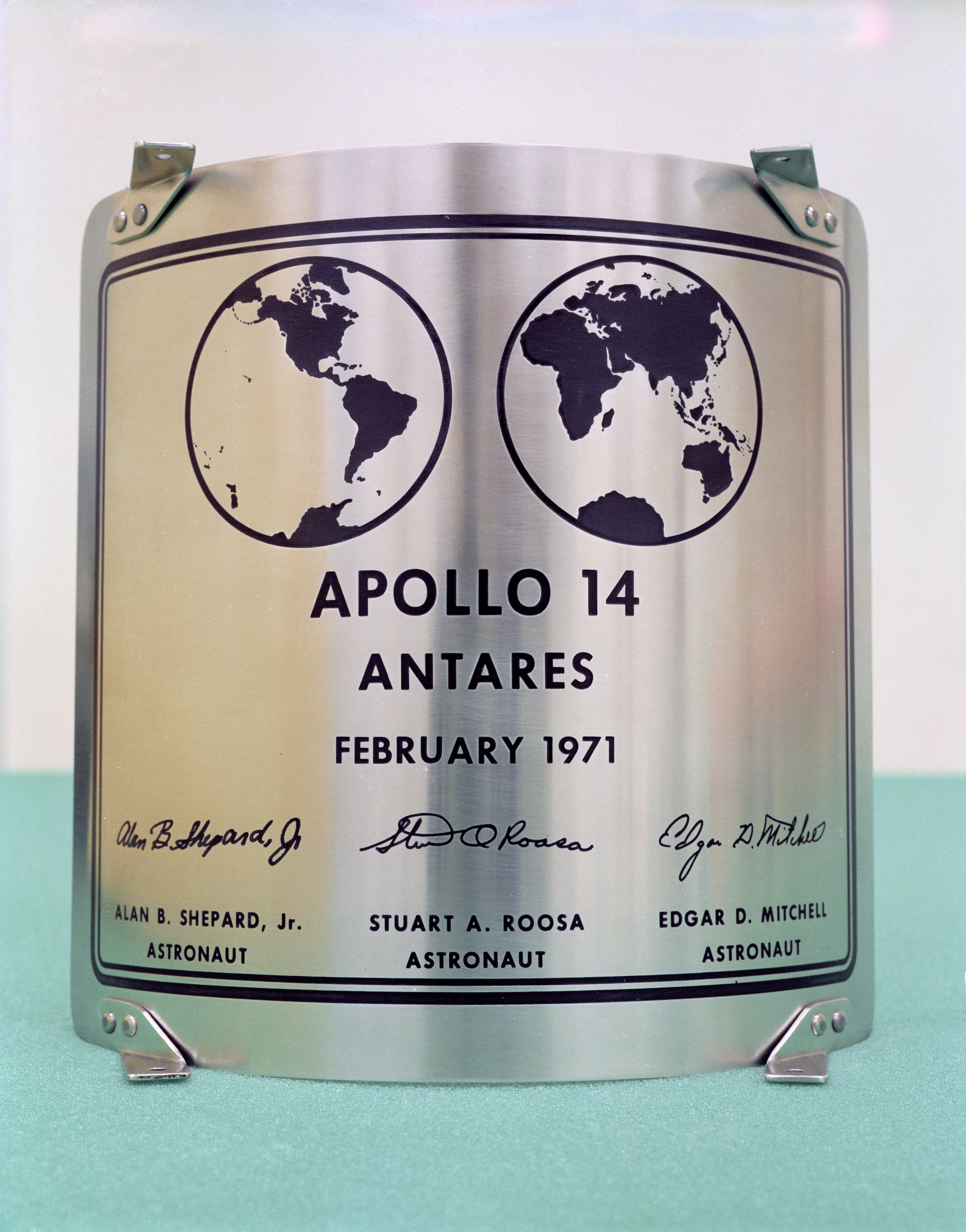 This appears to be NASA image S71-16637, from JSC here or another of their image archives.